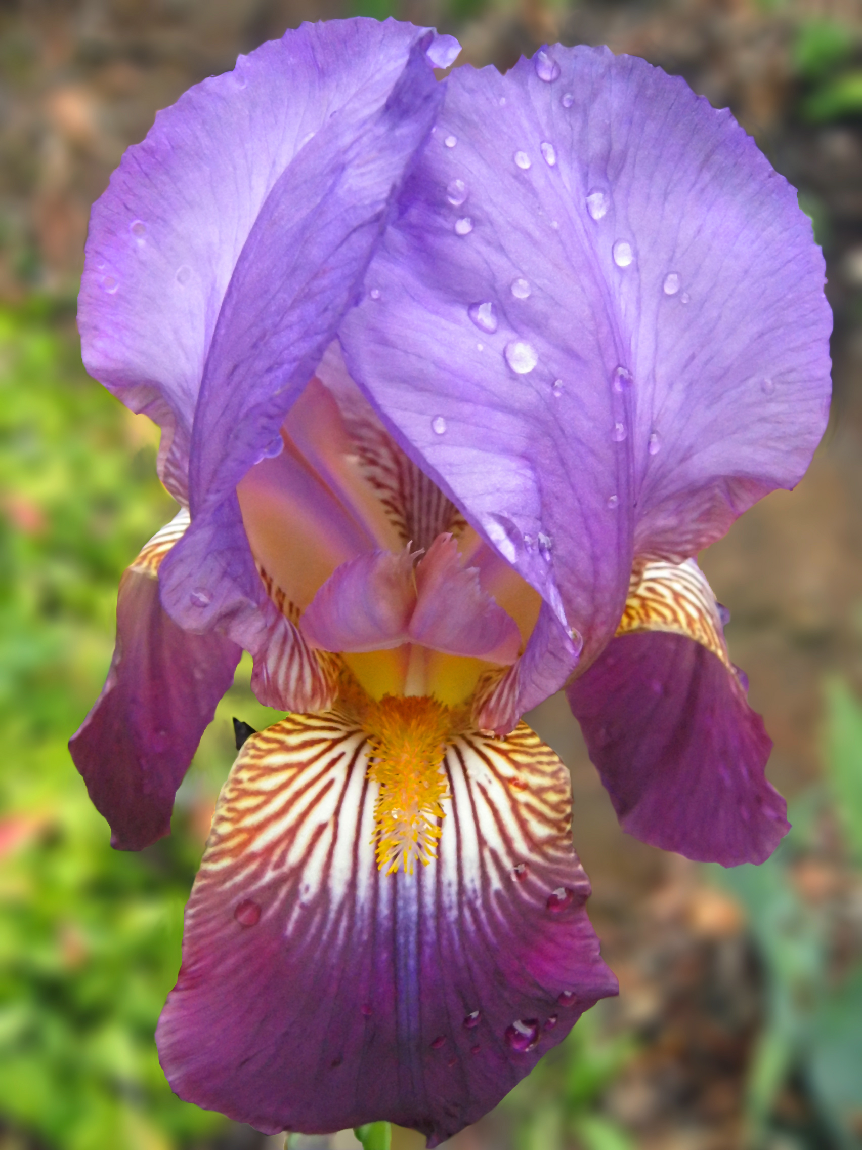 This is a picture of a purple iris flower in detail; Southern California